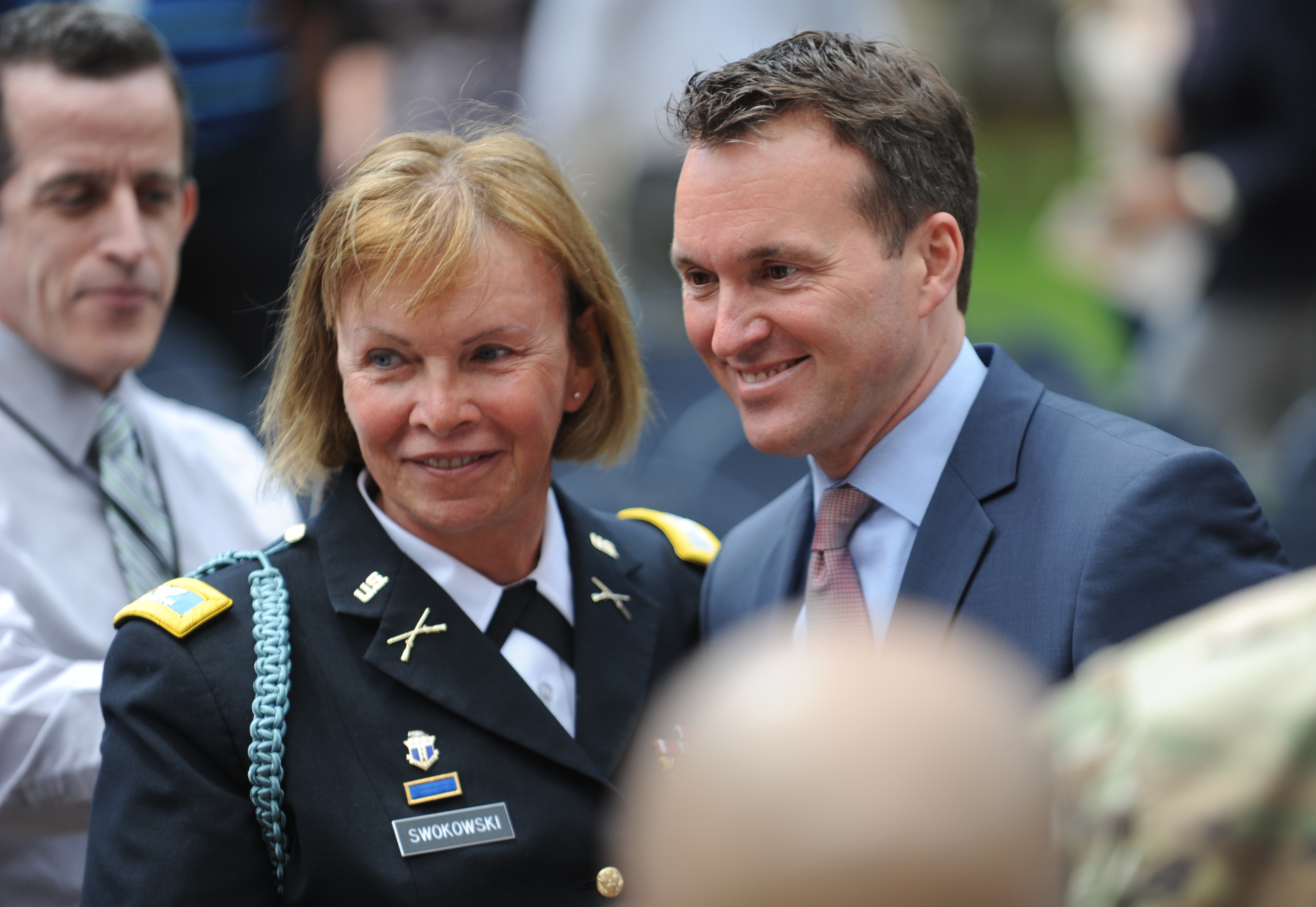 Secretary of the Army, The Honorable Eric Fanning, greets and speaks with members of the audience during the Department of Defense LGBT Pride Month Event Celebration held on the Pentagon Courtyard, June 8th, 2016. The event is an opportunity for the entire DoD community to come together and celebrate the great diversity of the American people in a festive, affirming atmosphere. President Barack Obama signed a proclamation, May 31, 2016, designating June as Lesbian, Gay, Bisexual and Transgender Pride Month. On Sept. 20, 2011, the "don’t ask, don’t tell" repeal went into full implementation, allowing lesbian, gay and bisexual service members to serve openly in the U.S armed forces. (DoD photo) Unit: DoD News